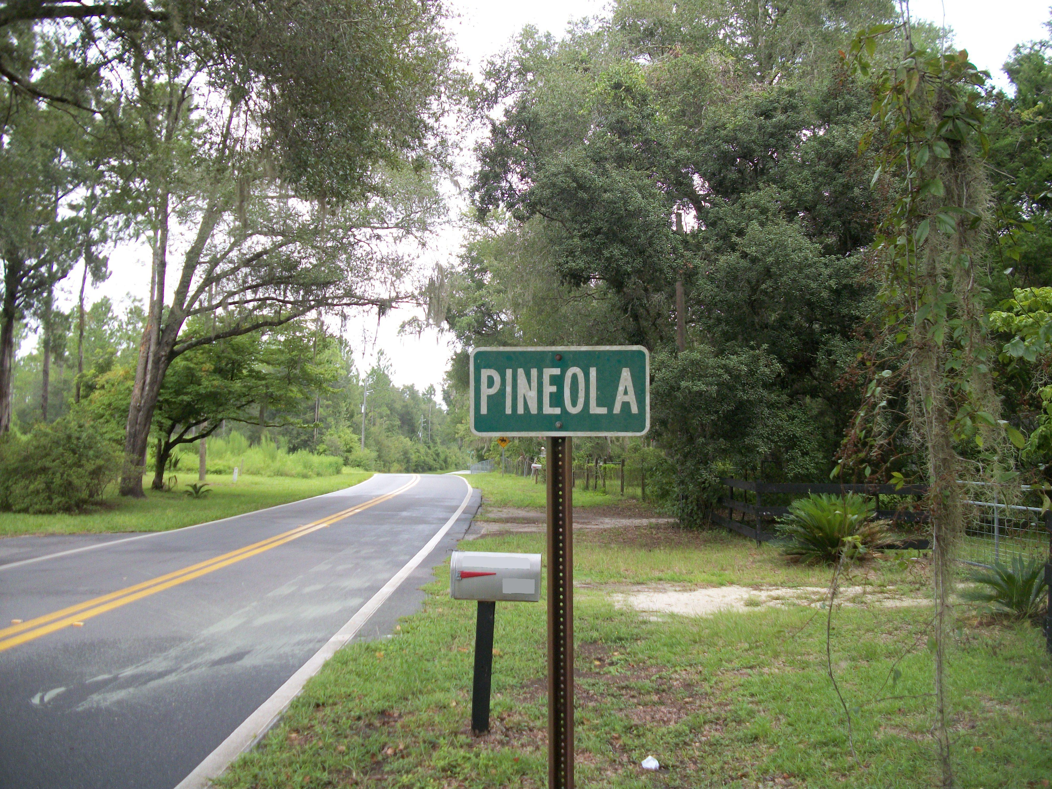 Northbound sign along Citrus County Road 39 for the rual communiy of Pineola, Florida. The mailbox behind it was blanked out to protect the owner's privacy(Hey, sometimes I think of these things and other times I forget). The pic is an attempt to prove that communities like Pineola exist.